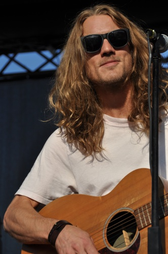 Gusav Ejstes of Dungen - Live in Concert